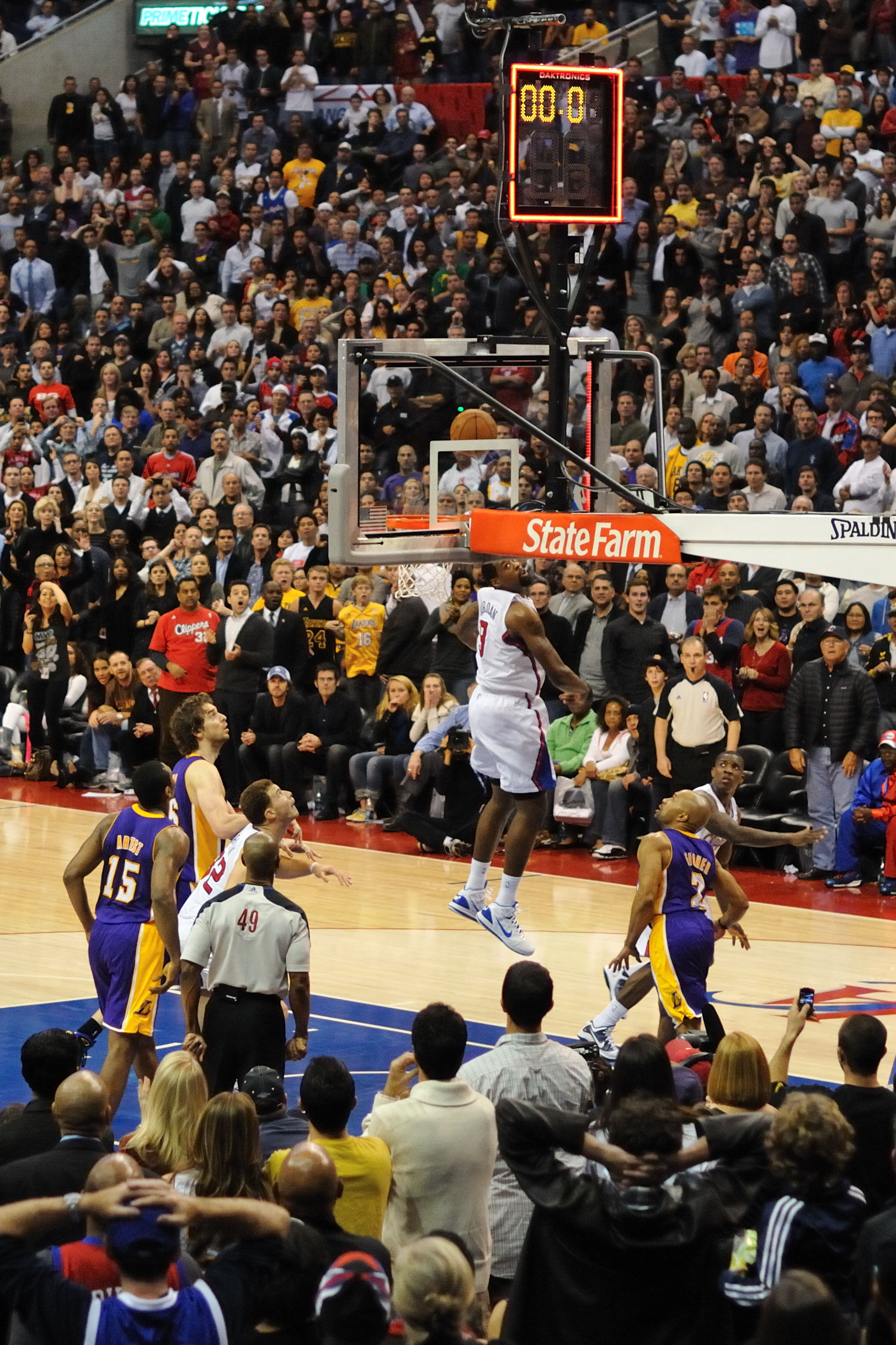 LA Lakers' Derek Fisher shoots what would be the game-winner against the LA Clippers on Dec. 8, 2010 at the Staples Center.